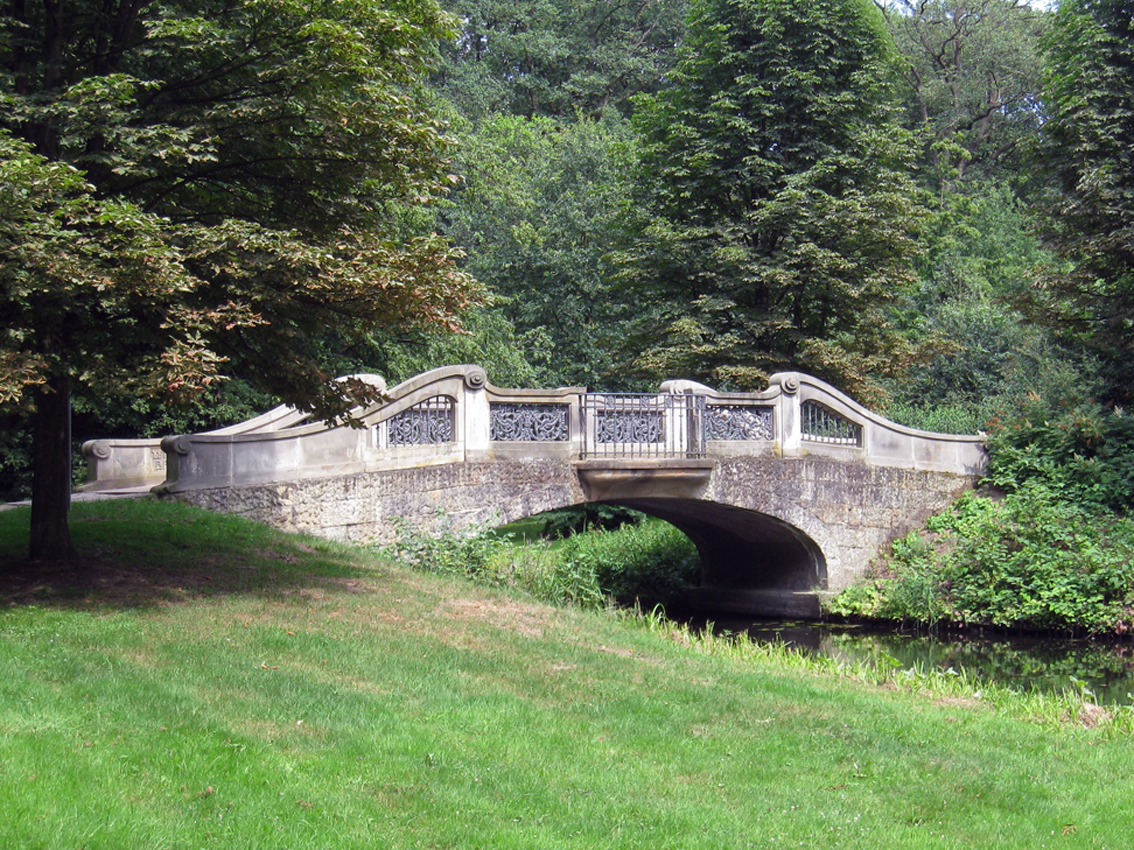 The Wiegand-Brücke in the Bürgerpark in Bremen, Germany. Built 1905 by Friedrich Wellermann and Paul Froelich.